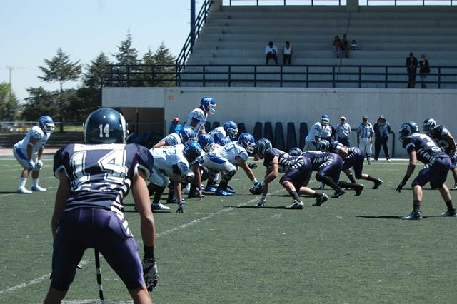 American football game between the ITESM-Campus Ciudad de Mexico youth team división C and that of ITESM Campus Toluca